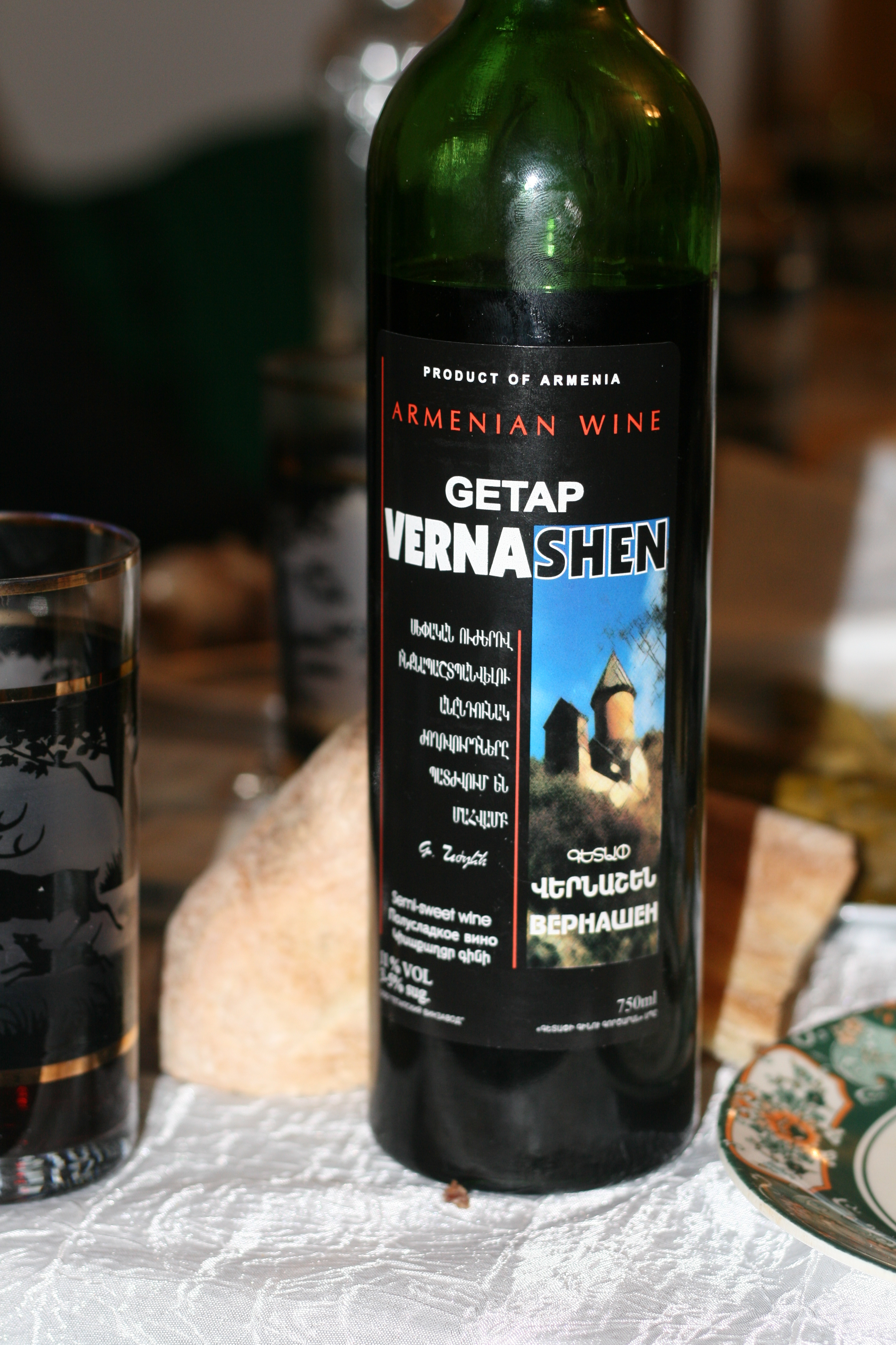 Armenian wine produced in Getap and Vernashen.